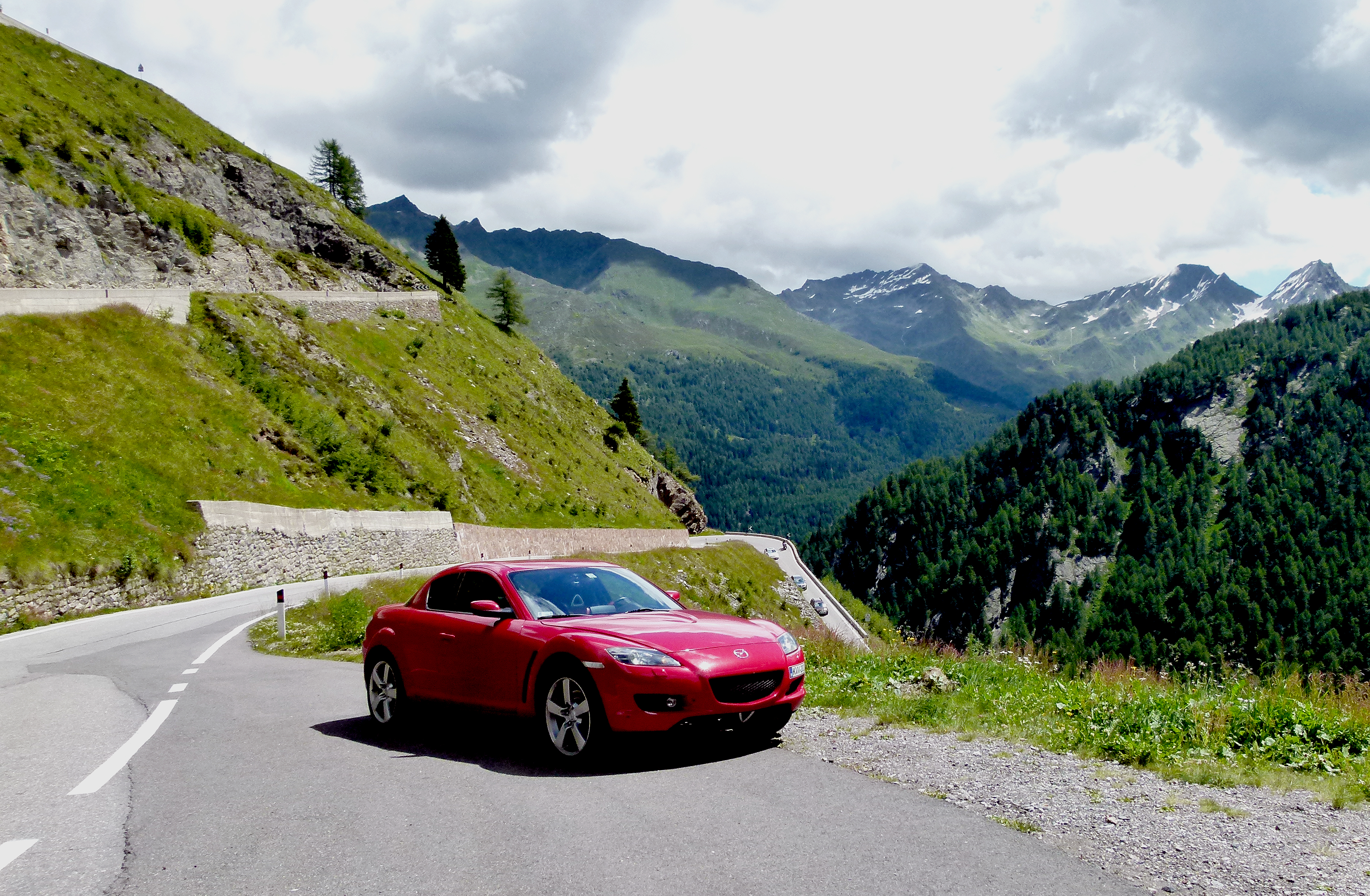 Timmelsjoch, Italy